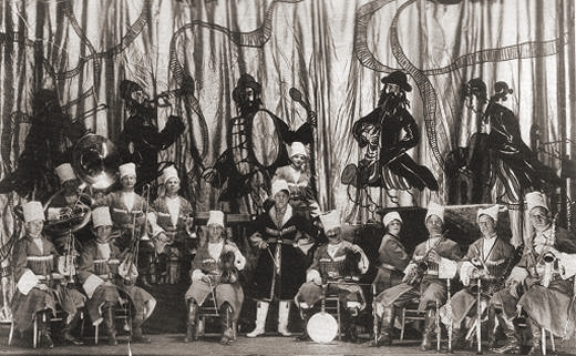 Joseph Cherniavsky and His Yiddish-American Jazz Band in the years 20s